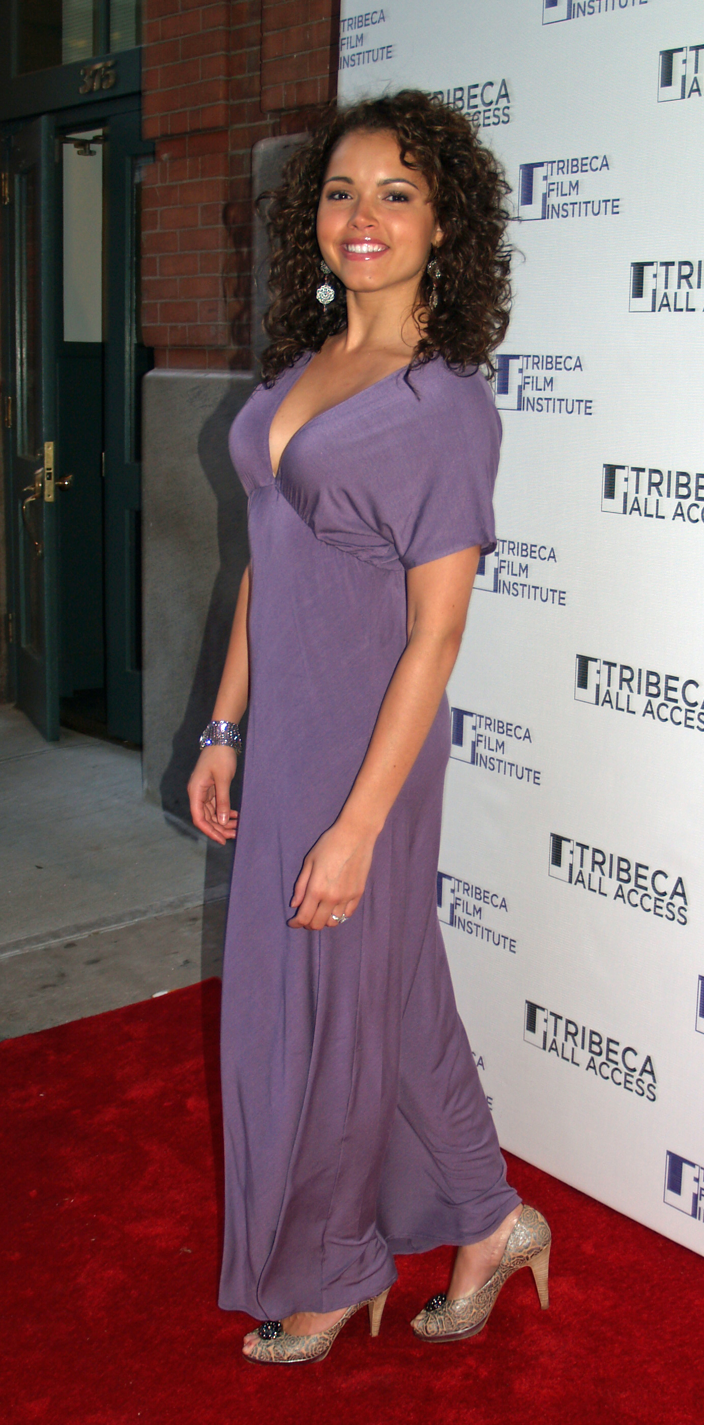 Susie Castillo (former Miss USA 2003) at the 2007 Tribeca Film Festival